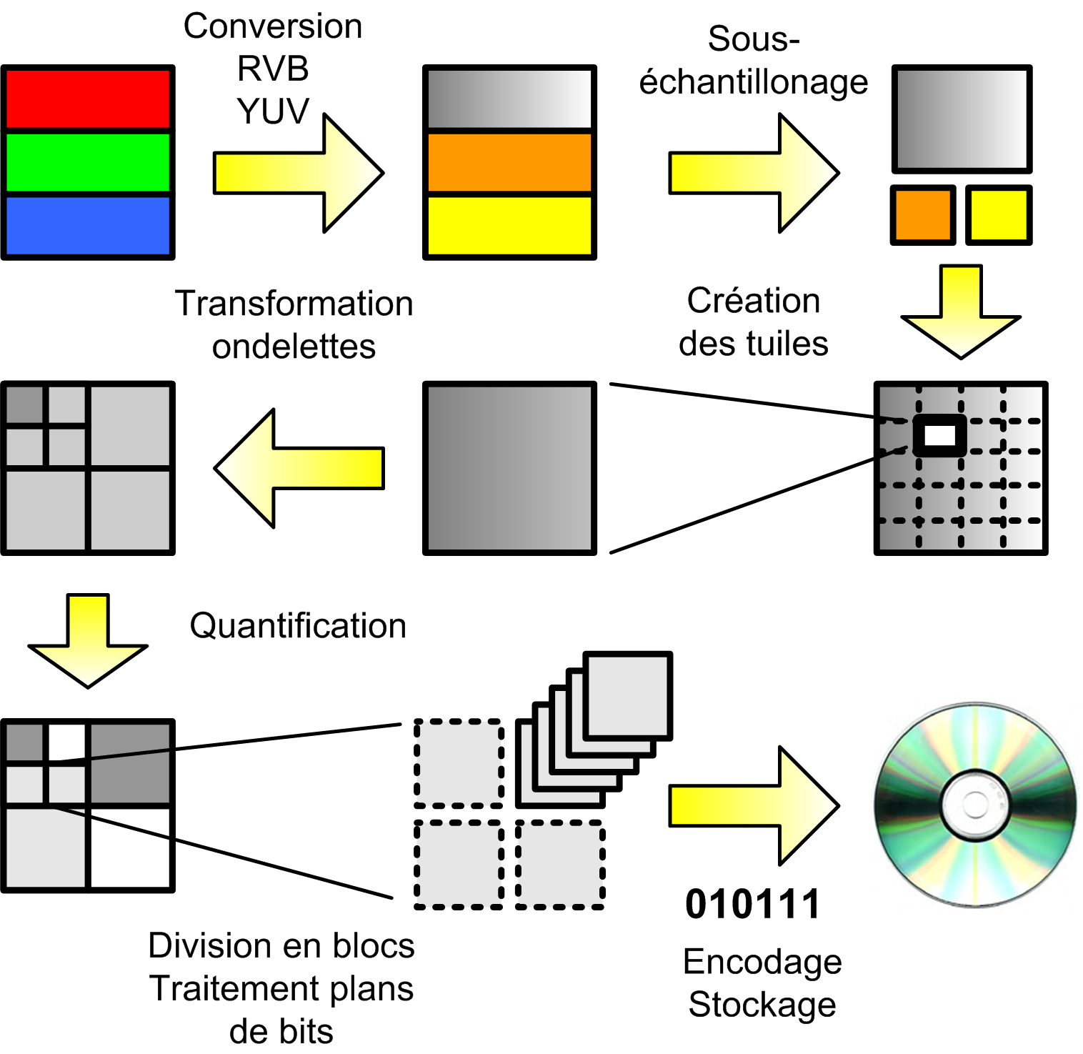 en: Important steps in the JPEG 2000 encoding